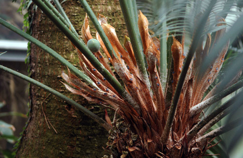 Cycas circinalis female megasporophyls with one seed plus unfertilized eggs in Prague